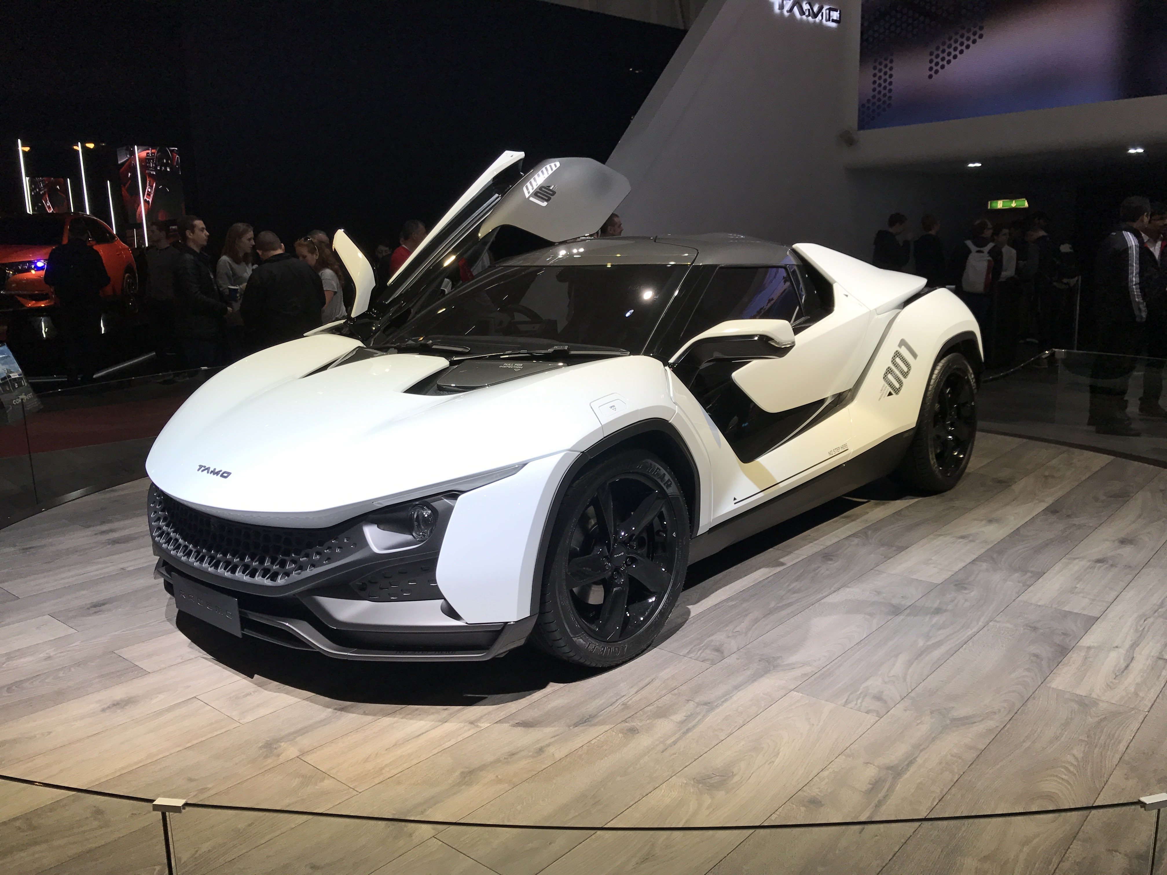 TaMo Racemo by Tata Motors.